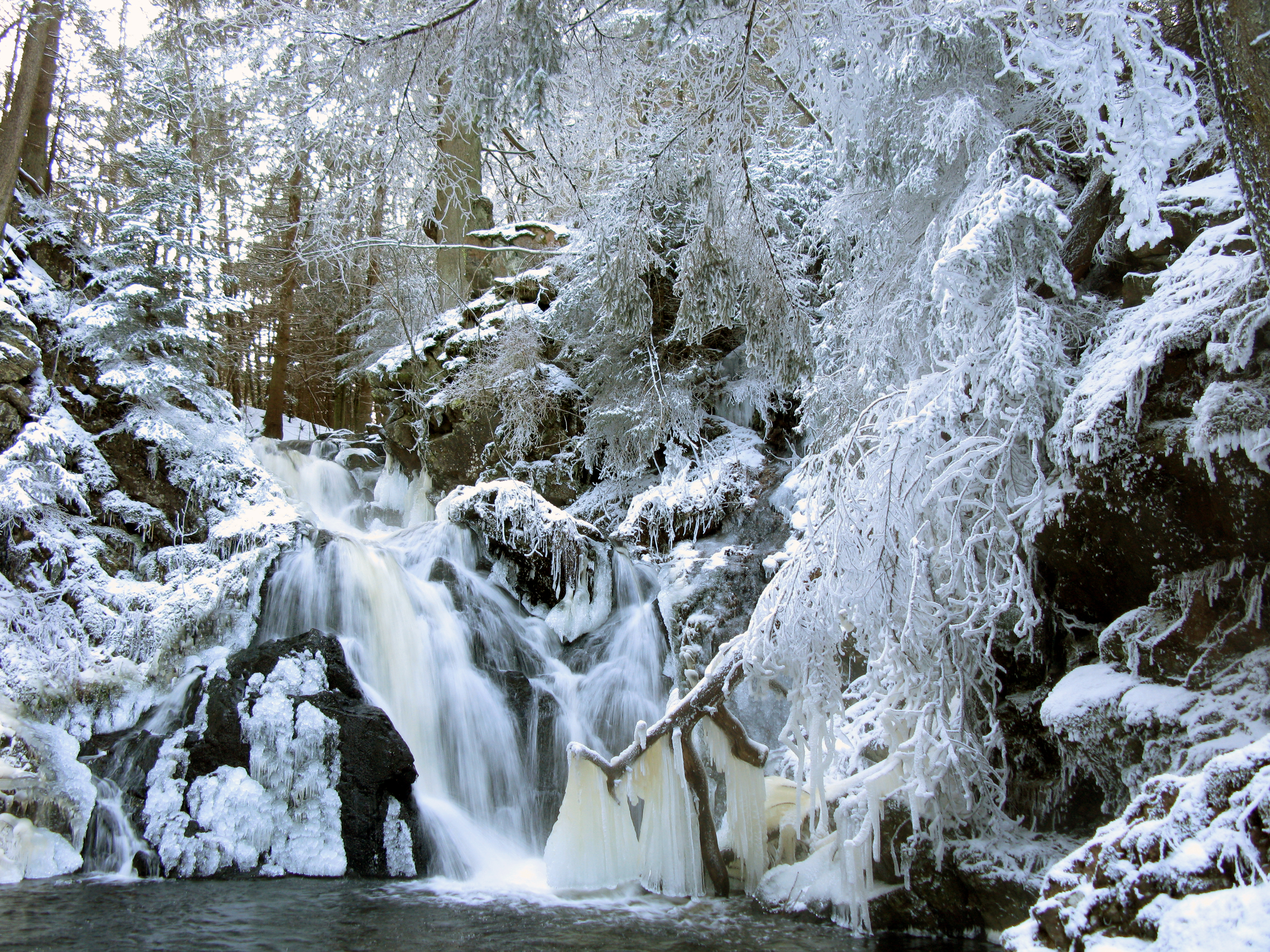 Waterfall Falkau